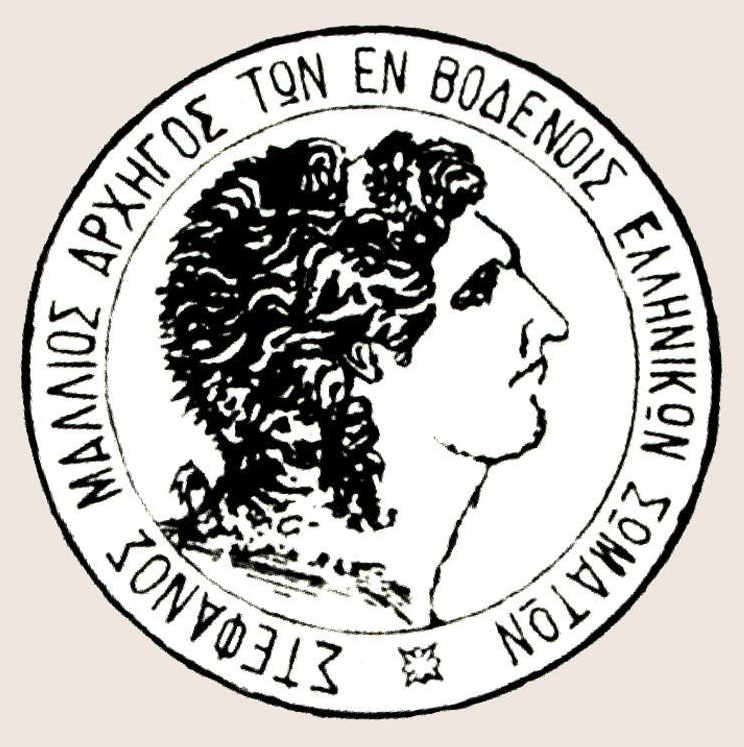 Stefanos Dukas seal